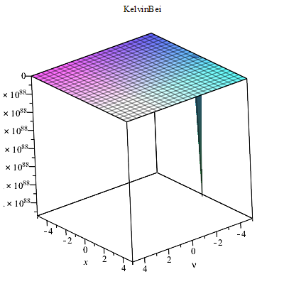 Kelvin Bei(v,z) function